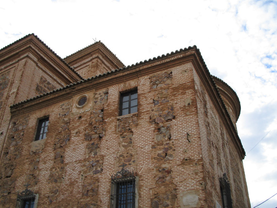 Church of Los Yébenes (Spain)